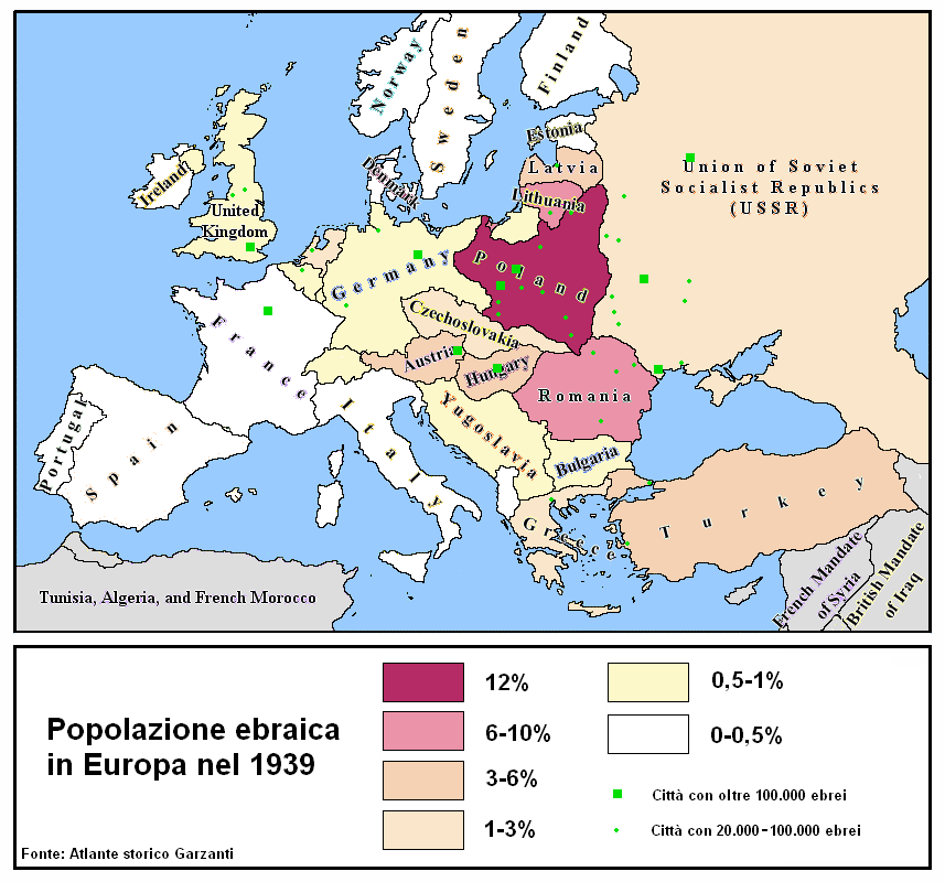 Political map of Europe between the years 1929 and 1939